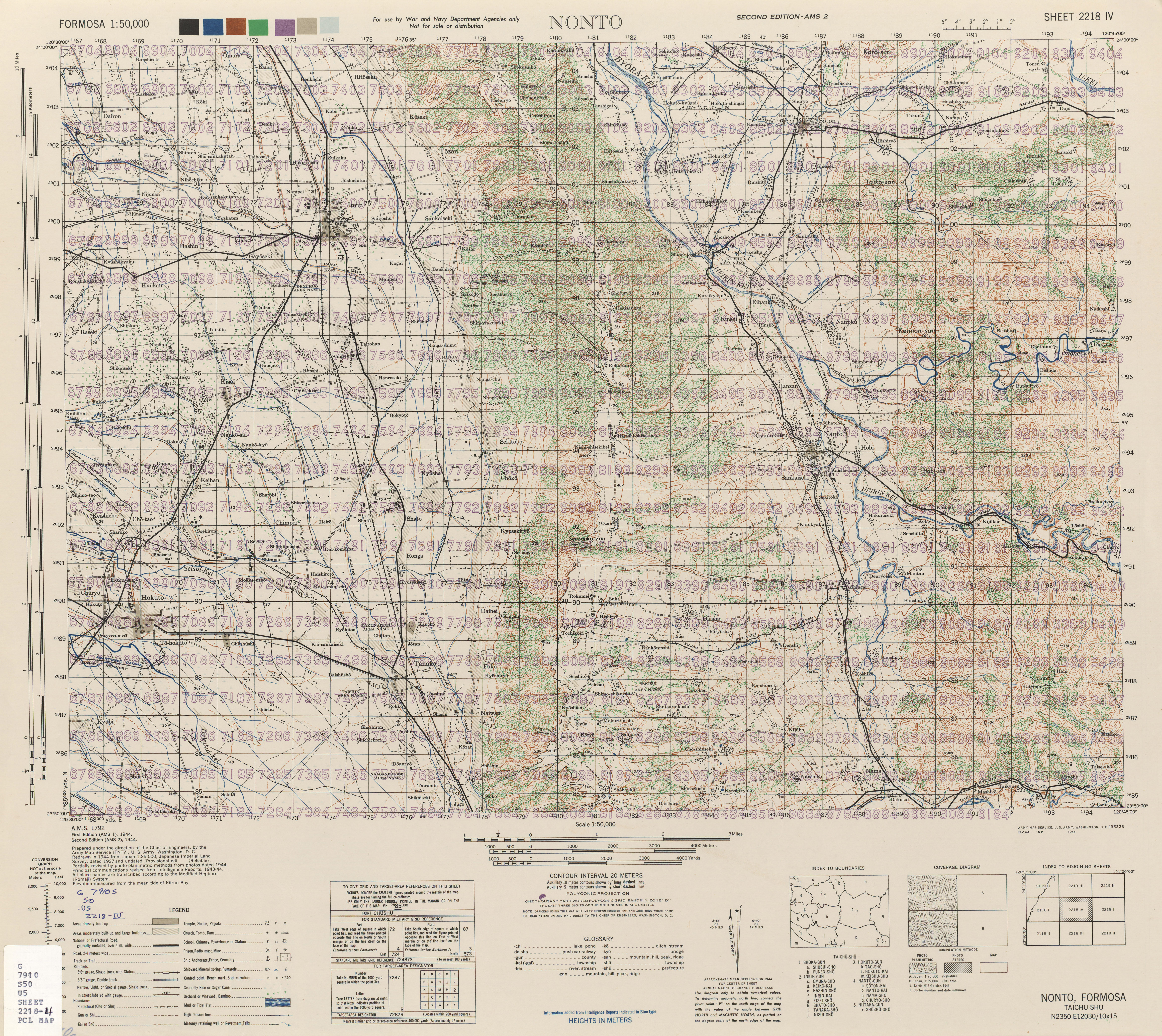 Map from Formosa (Taiwan) 1:50,000 AMS Series L792